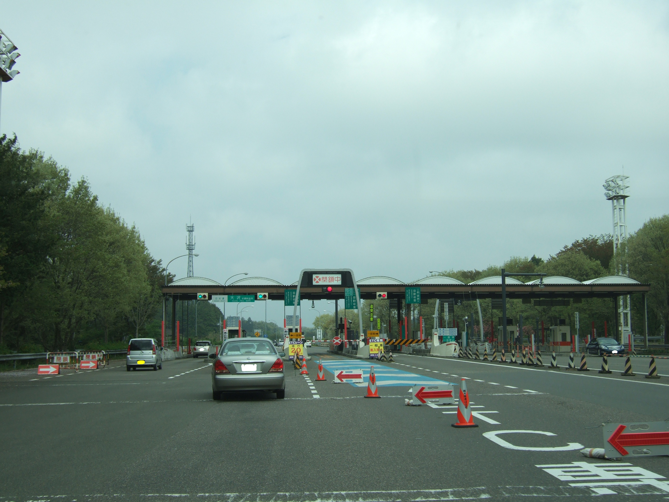 Osawa Toll Gate on the Nikko-Utsunomiya Road